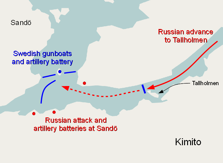 Map showing the events of battles of Tallholma and Sandoström in 1808